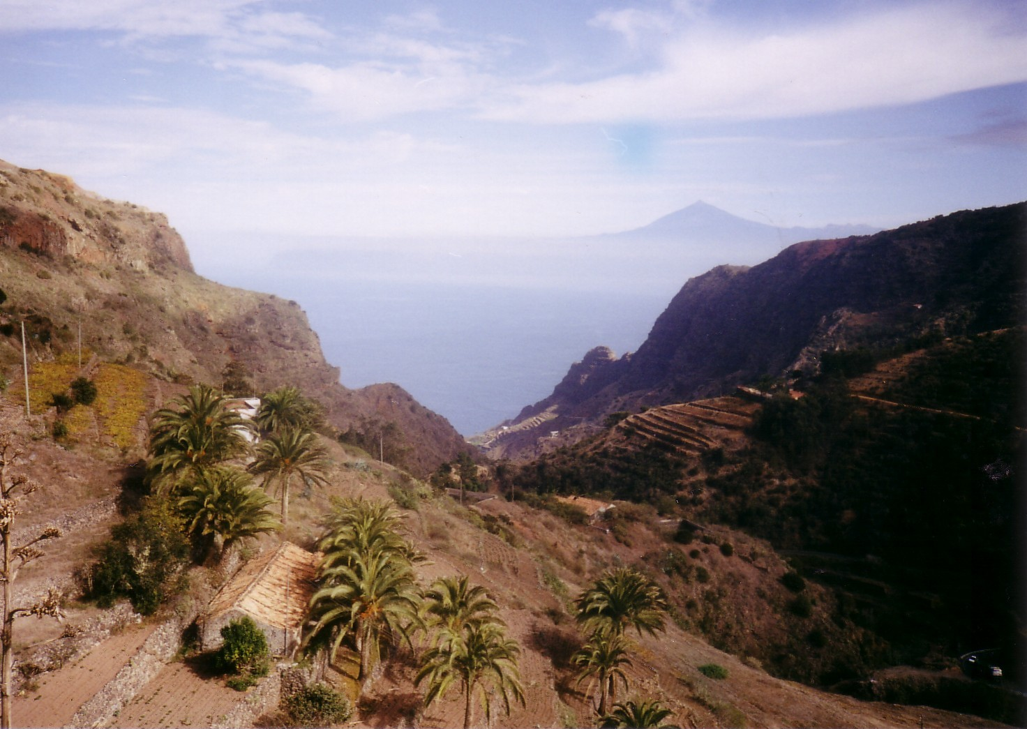 Pico del Teide seen from island Gomera